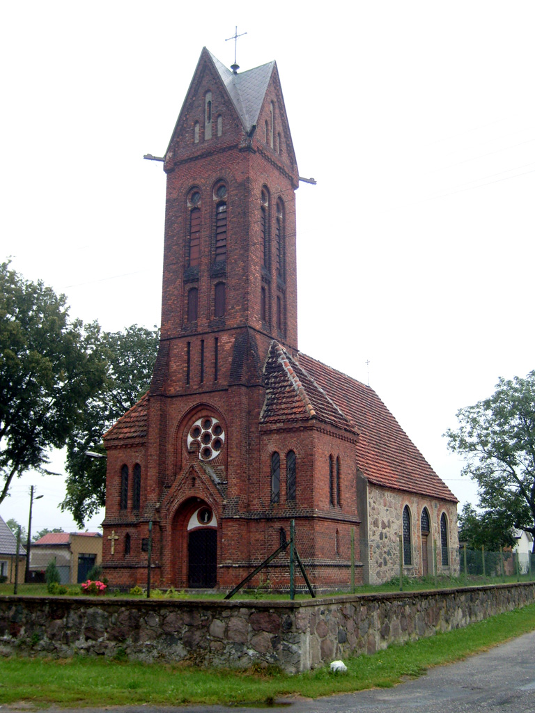 Saint Anthony of Padua church in Święte, Poland